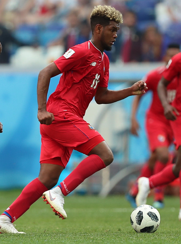 Ricardo Ávila